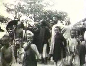 Motion Capture from a movie directed by Gabriel Veyre in Indochina (1899).